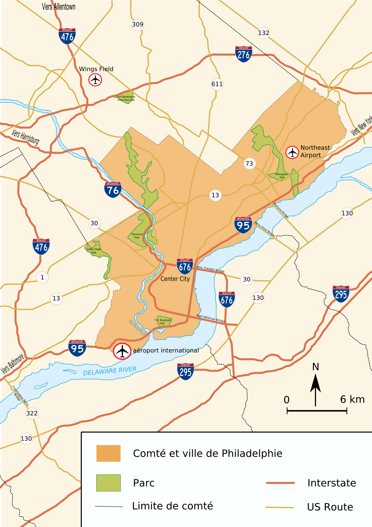 Map of Philadelphia Area + roads